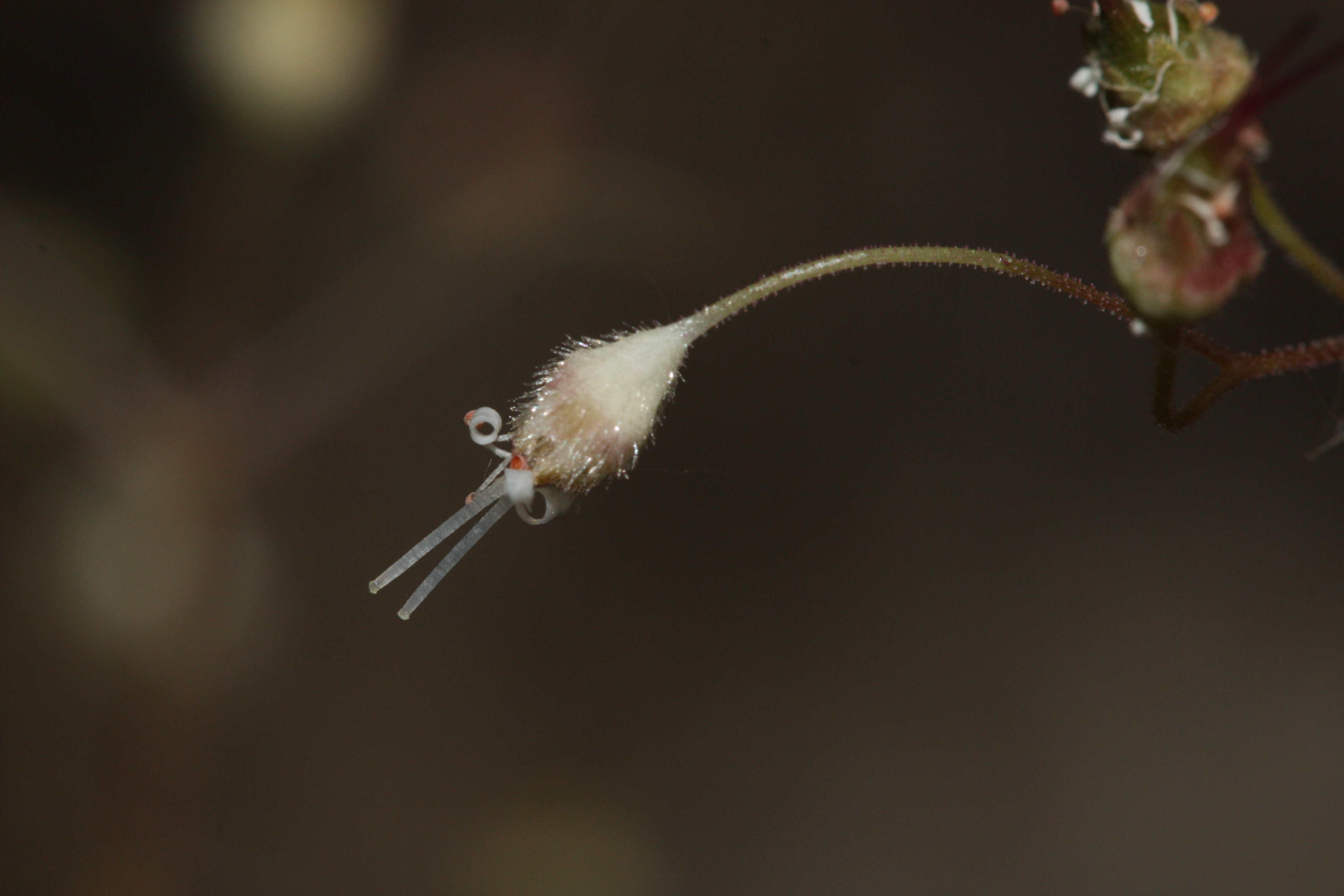 Smallflower Alumroot